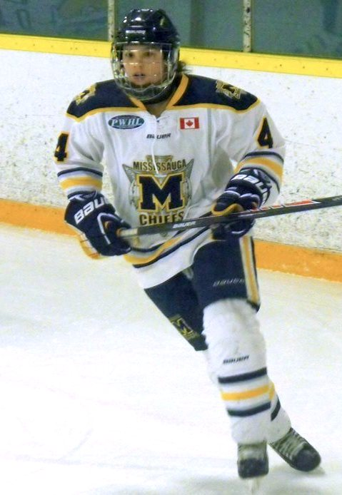 This photo was taken by Devan Mighton during the 2013-14 PWHL season.